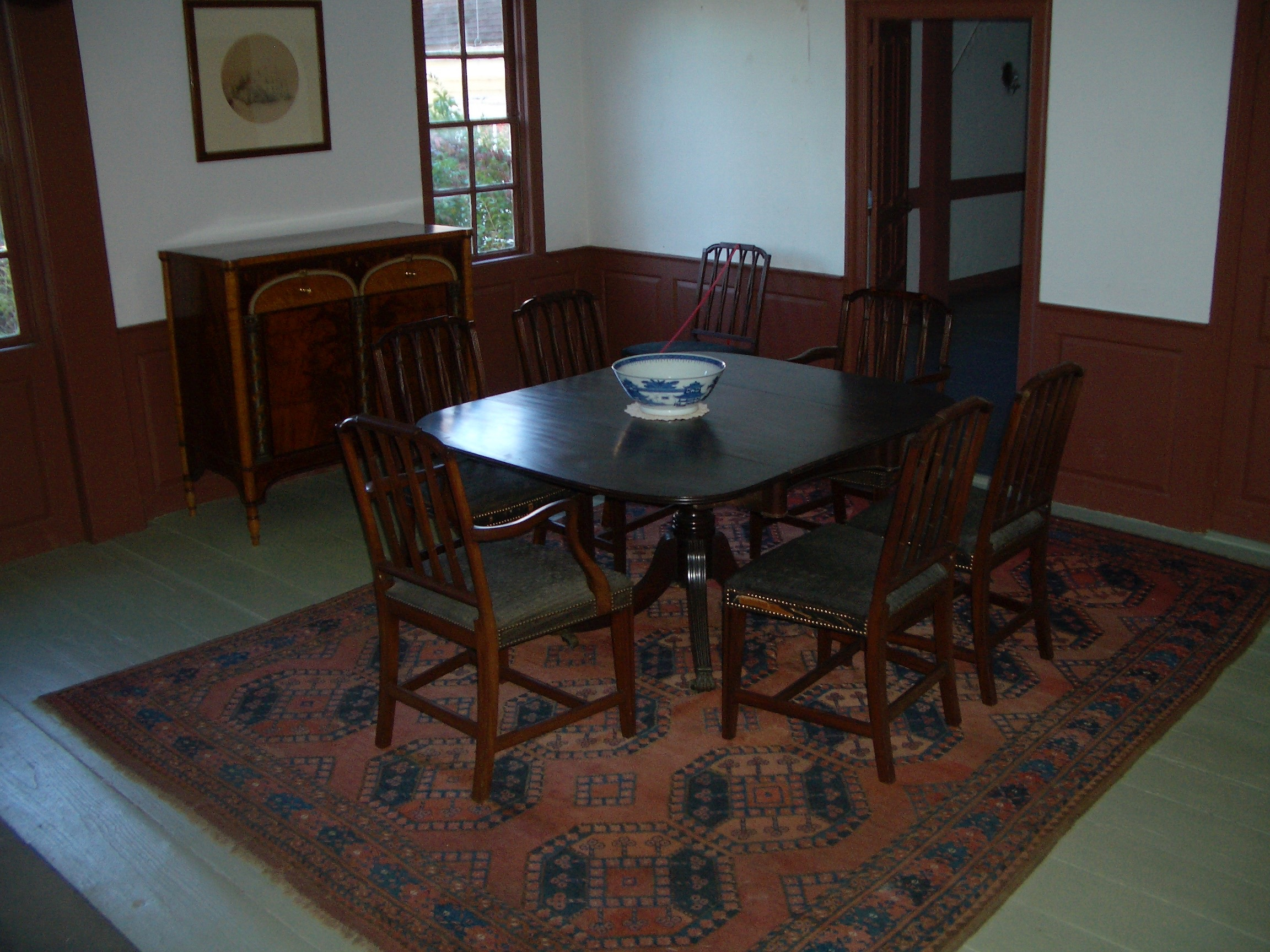 Wentworth-Coolidge Mansion, back parlor, furnished with antique Portsmouth furniture to suggest a dining room of the end of the late-eighteenth or early-nineteenth century.